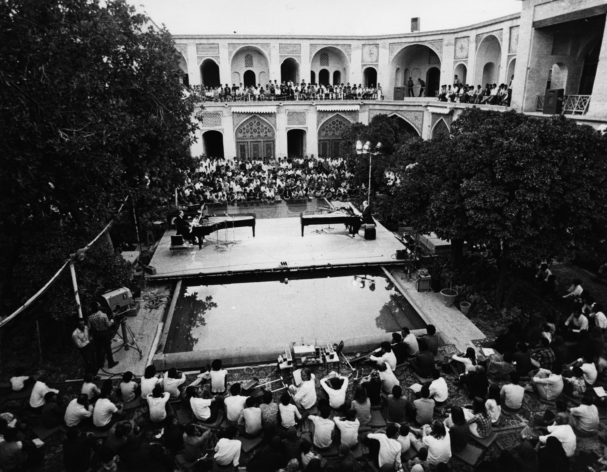 performance of MANTRA, Aloys and Alfons Kontarsky, 2.9.1972 18:30, Seraye Moshir.